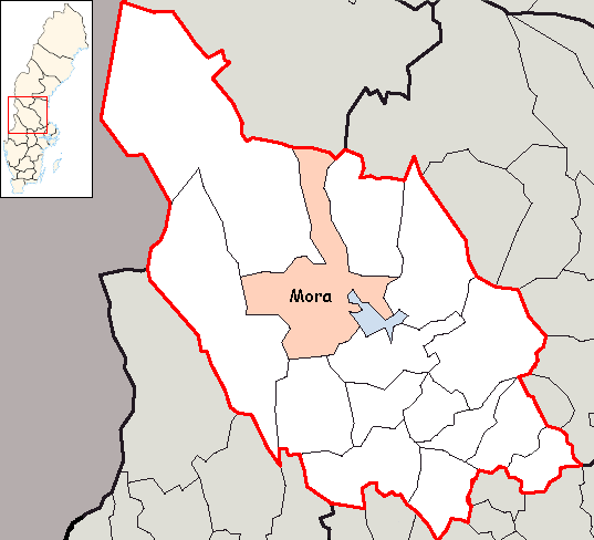 Mora Municipality in Dalarna County Designd by me, based on Image:Dalarna County.png